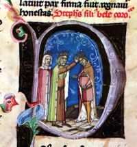 This picture shows the coronation of Steven V of Hungary. It origins from Picture Chronicle (Chronicon Pictum)(Képes Krónika) of Hungary, and as such, it is not protected by copyright. Its author died hundreds of years ago and the picture is now a public domain.